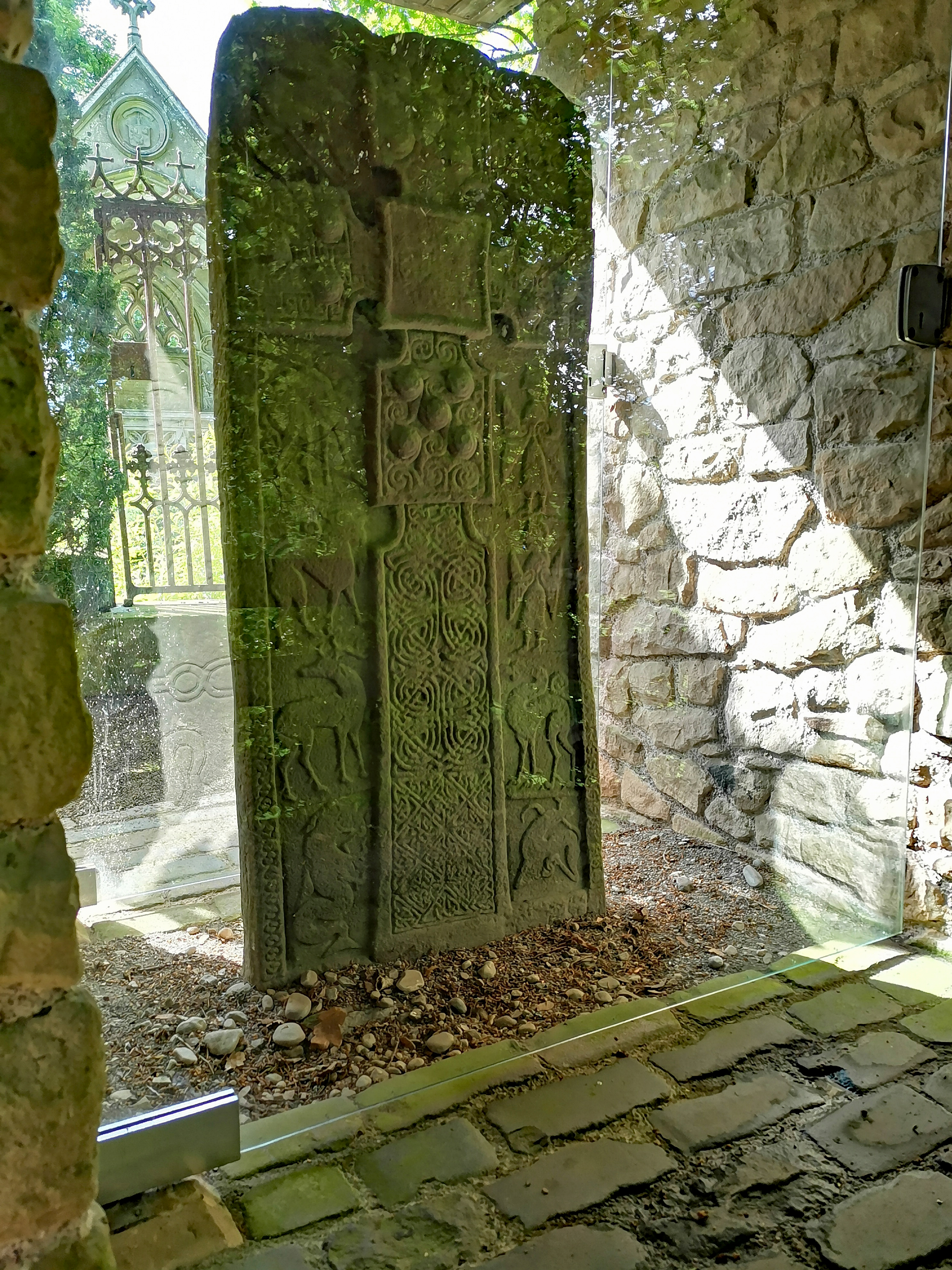 Dunfallandy Stone (Perth & Kinross, Scotland, UK)